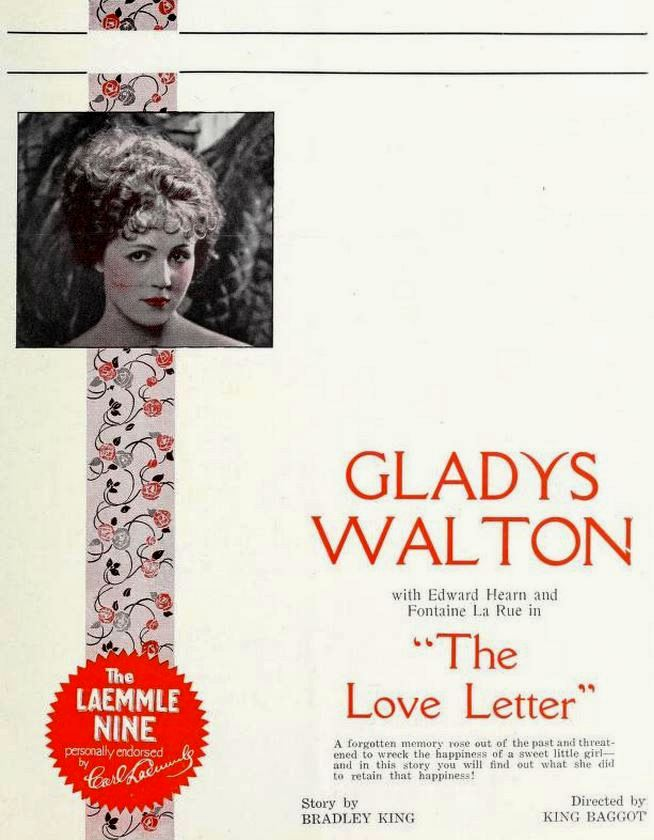 Advertisement for the American film The Love Letter (1923) with Gladys Walton, on page 31 of the December 2, 1922 Universal Weekly.